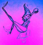 cute lil pixie